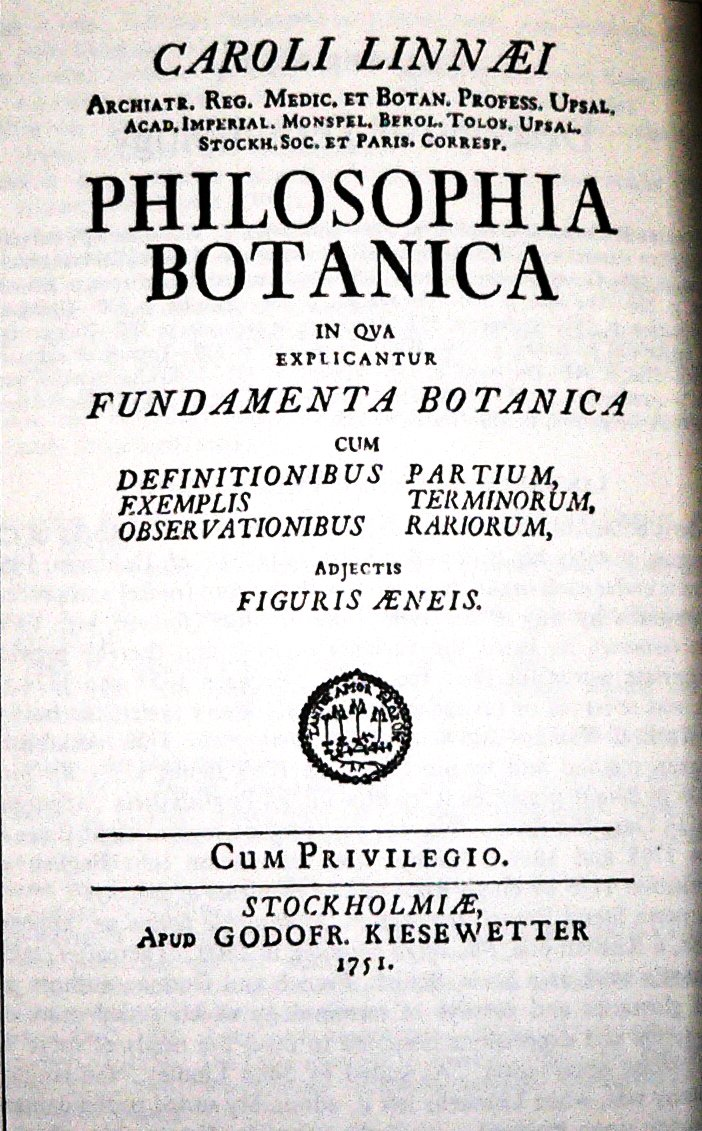 Title page of first edition of Linnaeus' Philosophia Botanica 1751.